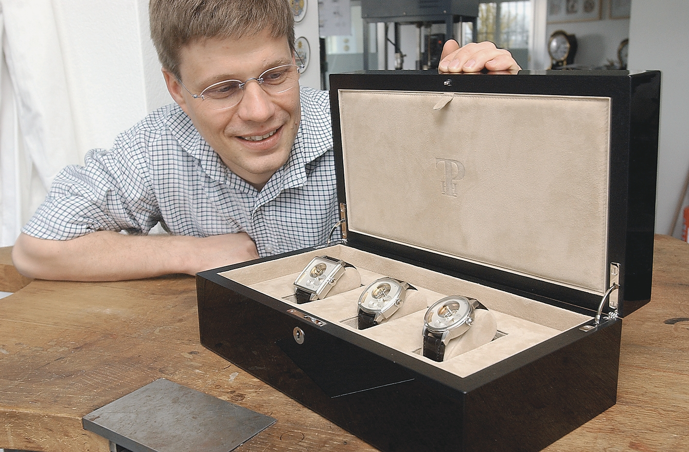 Set of three wristwatches with a Tourbillon. A Single Axis Tourbillon, a Double Axis Tourbillon, a Triple Axis Tourbillon made by hand from Thomas Prescher